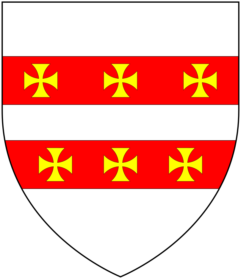 Arms of "Martyn of Hempston" (Broad Hempston) in Devon: Argent, on two bars gules three crosses formée or. (Vivian, Lt.Col. J.L., (Ed.) The Visitations of the County of Devon: Comprising the Heralds' Visitations of 1531, 1564 & 1620, Exeter, 1895, p.558). These are differenced arms of the ancient family of Martyn / Martin, feudal barons of Barnstaple in Devon (Argent, two bars gules).